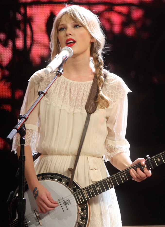 Taylor Swift Sydney